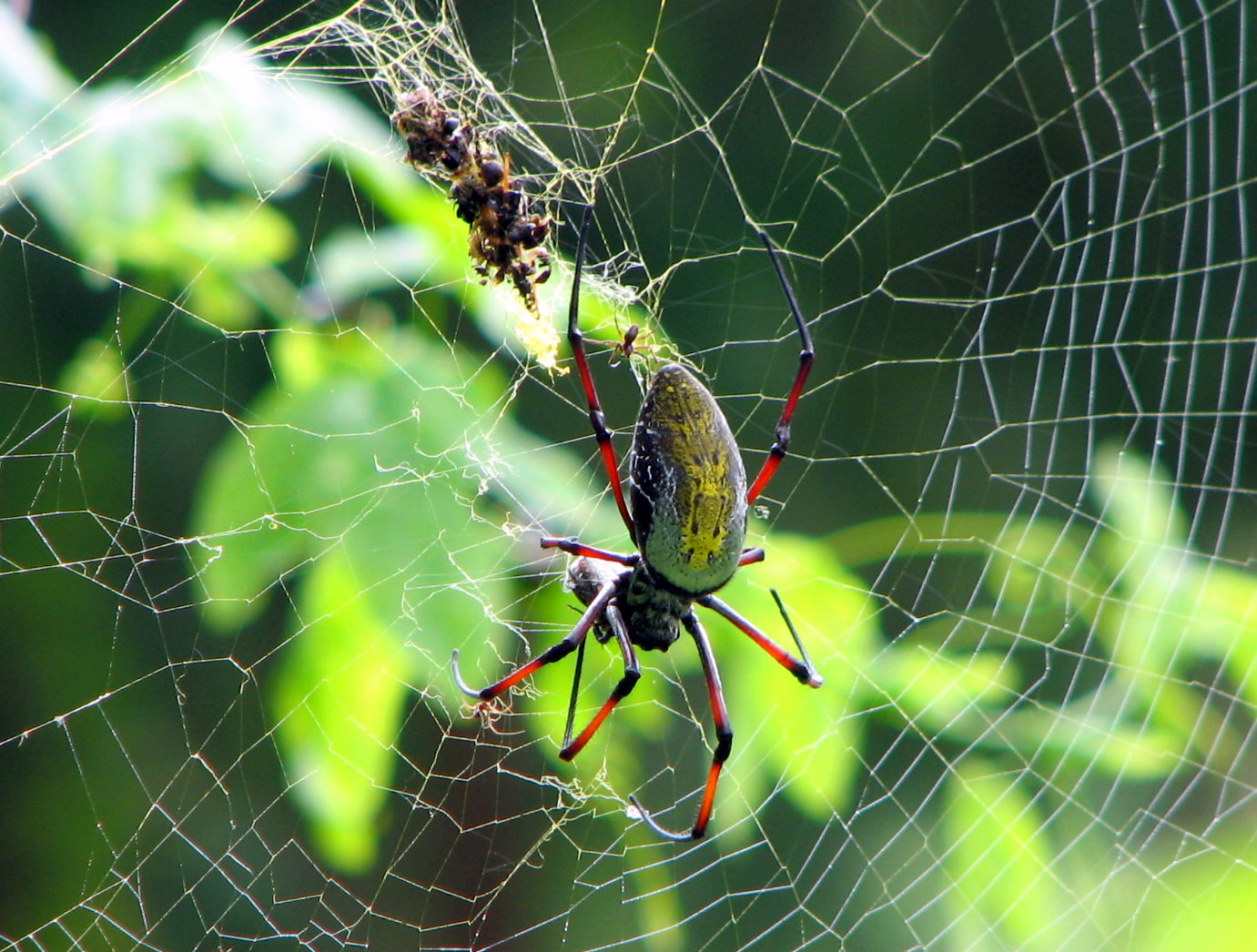 Red-legged golden orb-web spider near lake Tritriva, Madagascar